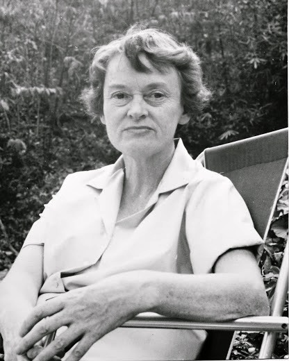 Photo of Jocelyn taken at the William Beebe Tropical Research Station in Simla, Trinidad c. 1960